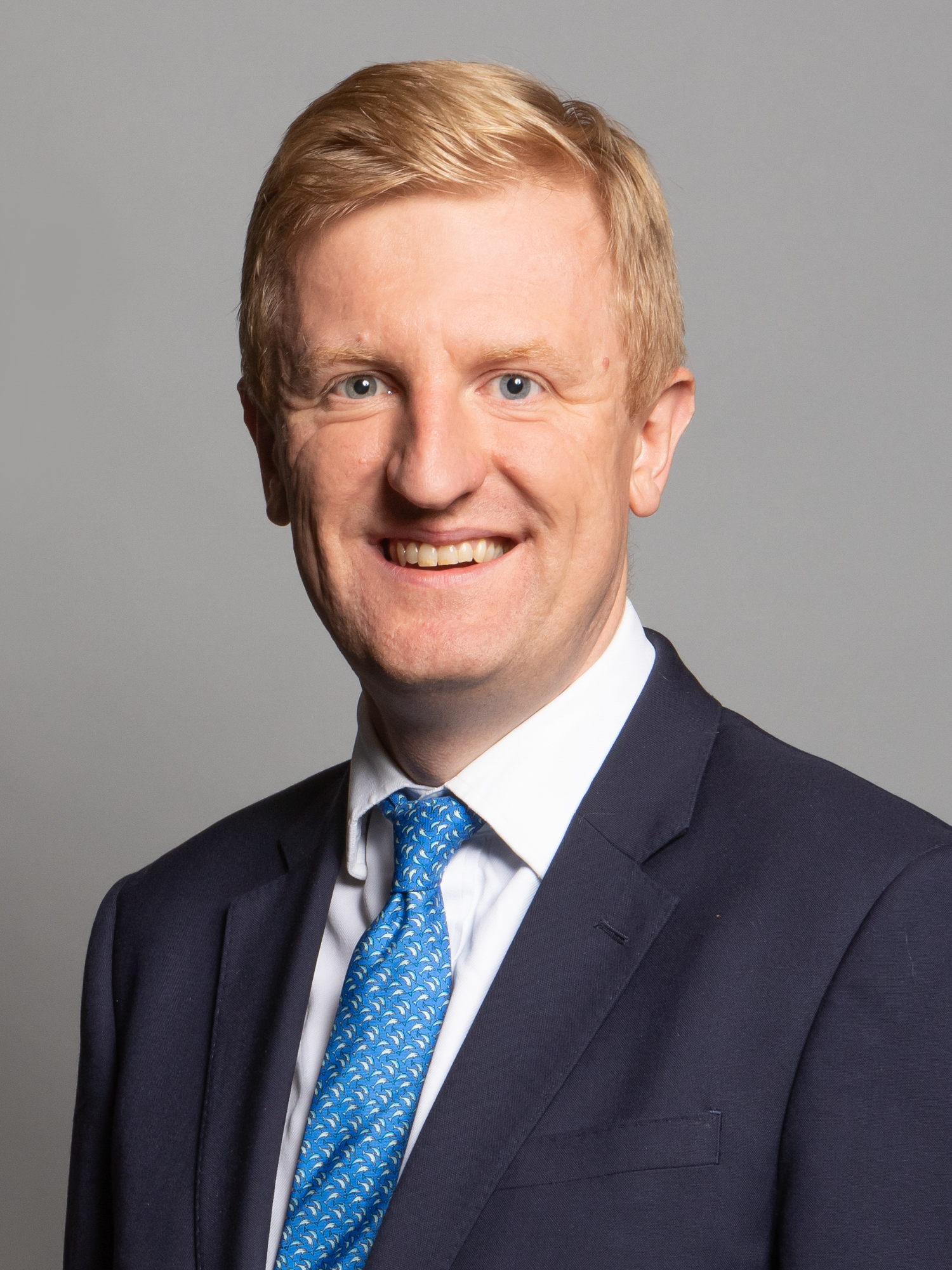 Official portrait of Rt Hon Oliver Dowden MP 3×4 portrait of Oliver Dowden